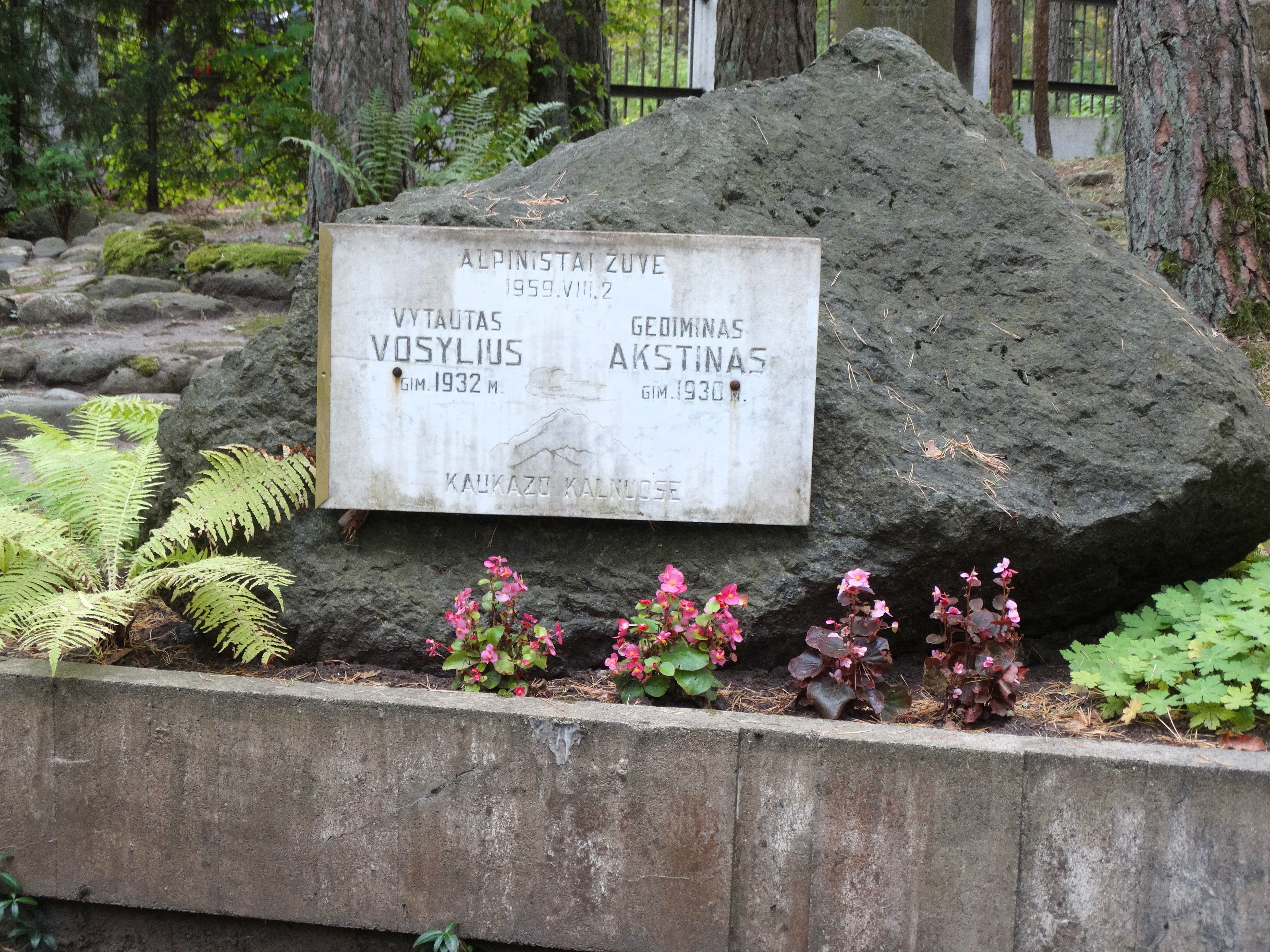 Tomb of V. Vosylius, Gediminas Akstinas (1926), Petrašiūnai, Lithuania